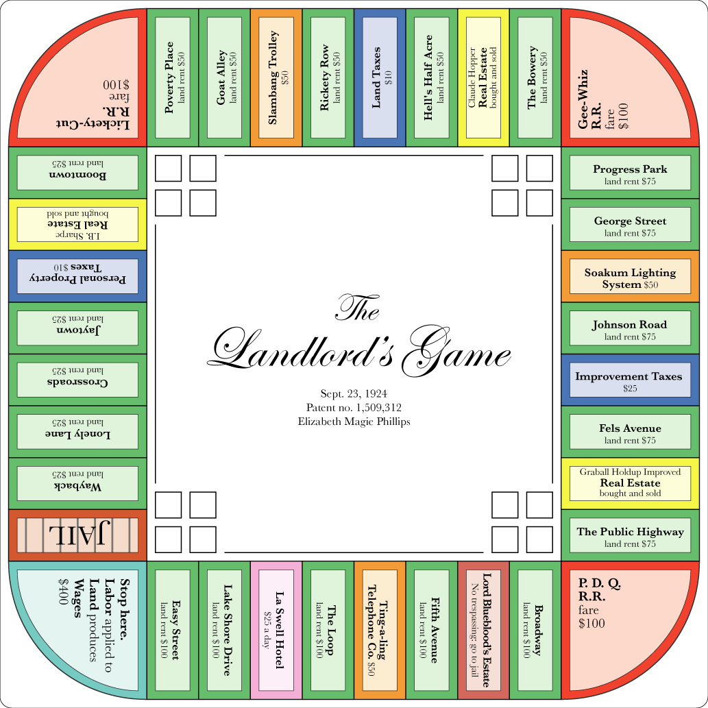 Landlord's Game board, based on Elizabeth Magie Phillip's 1924 patent.